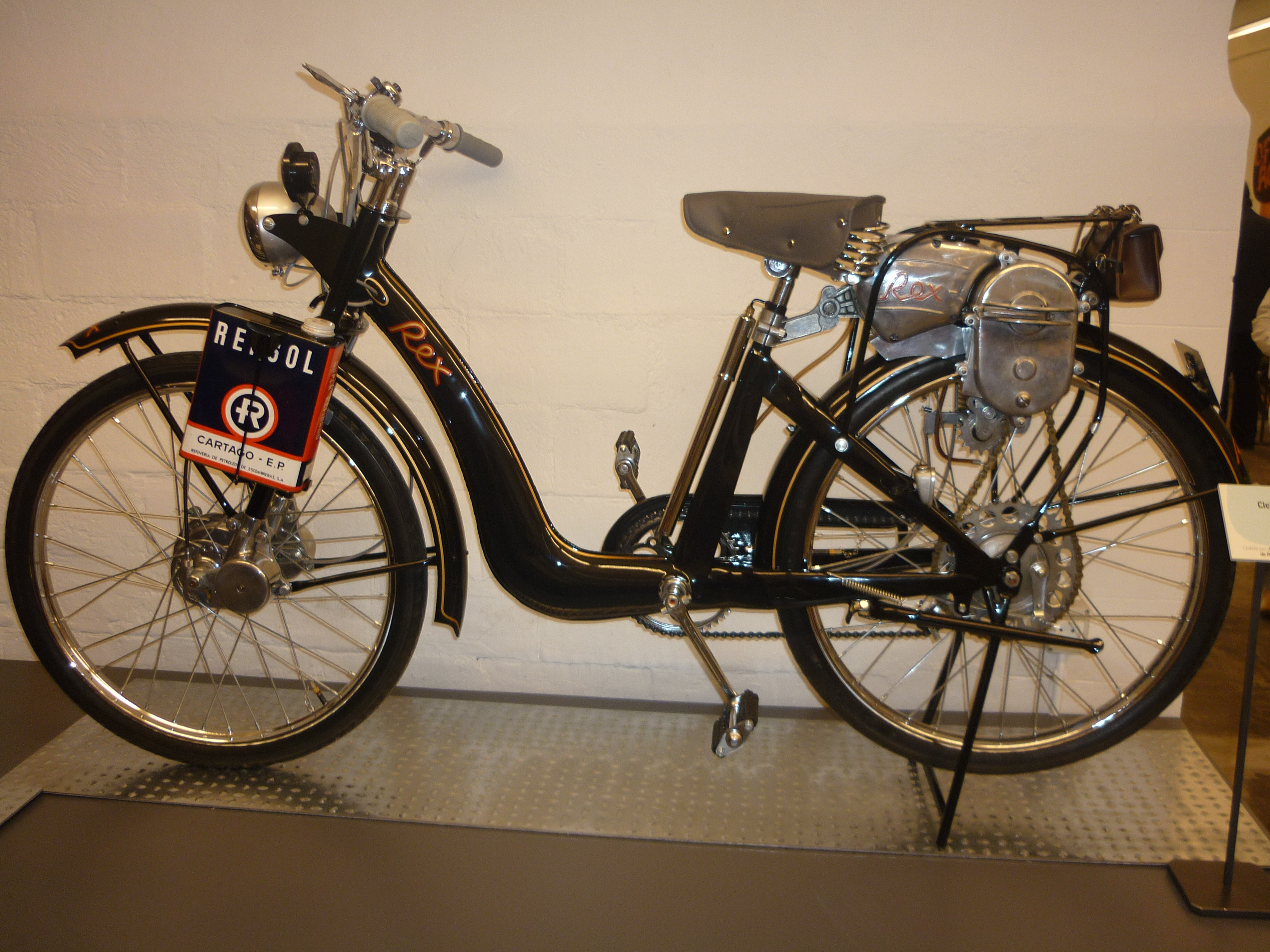 Rex Ciclomotor 65cc (1955). Museu de la Moto de Barcelona (Catalonia).